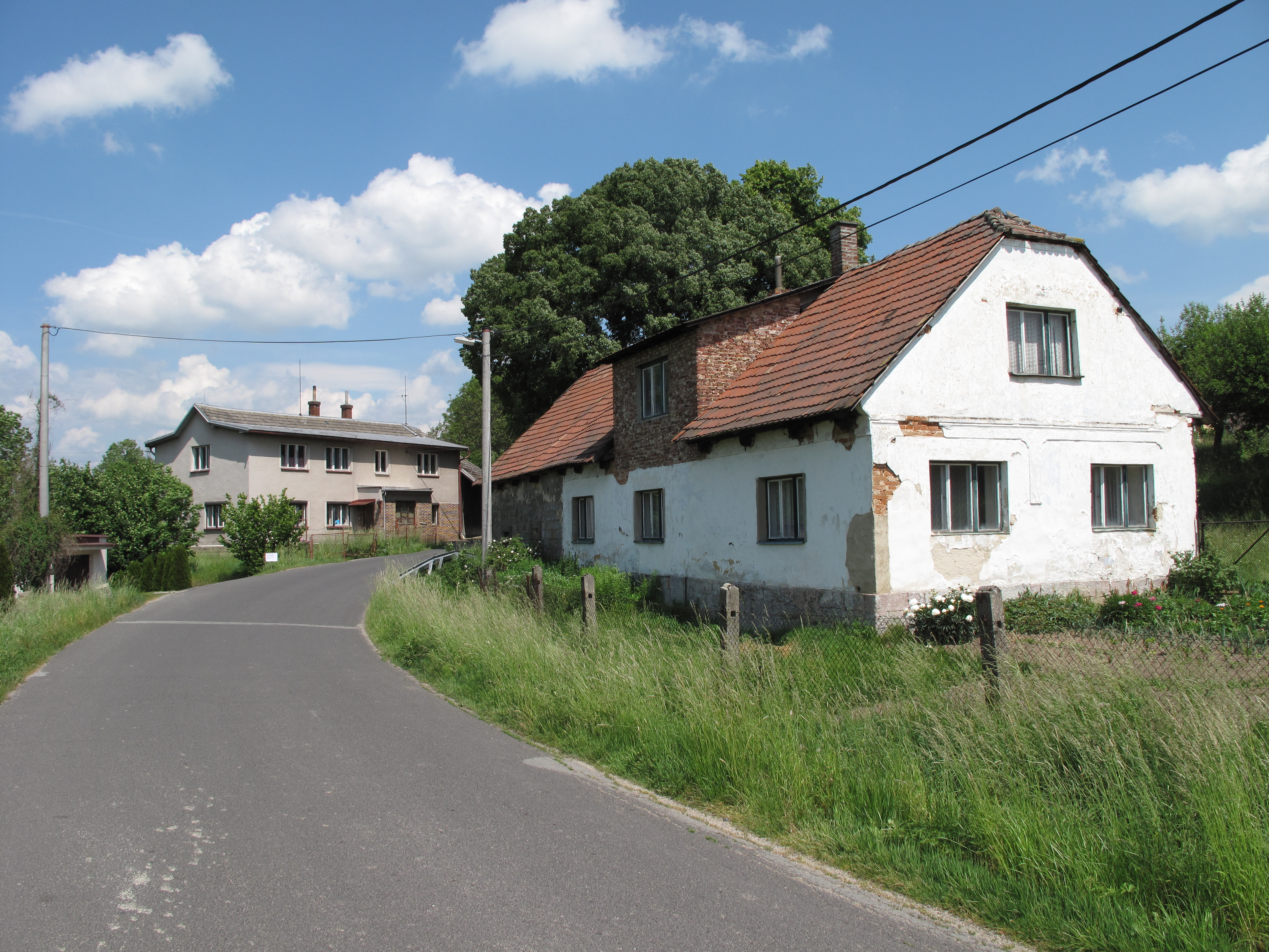 Cottage and road from the south in Václaví village, Semily District, Czech Republic.